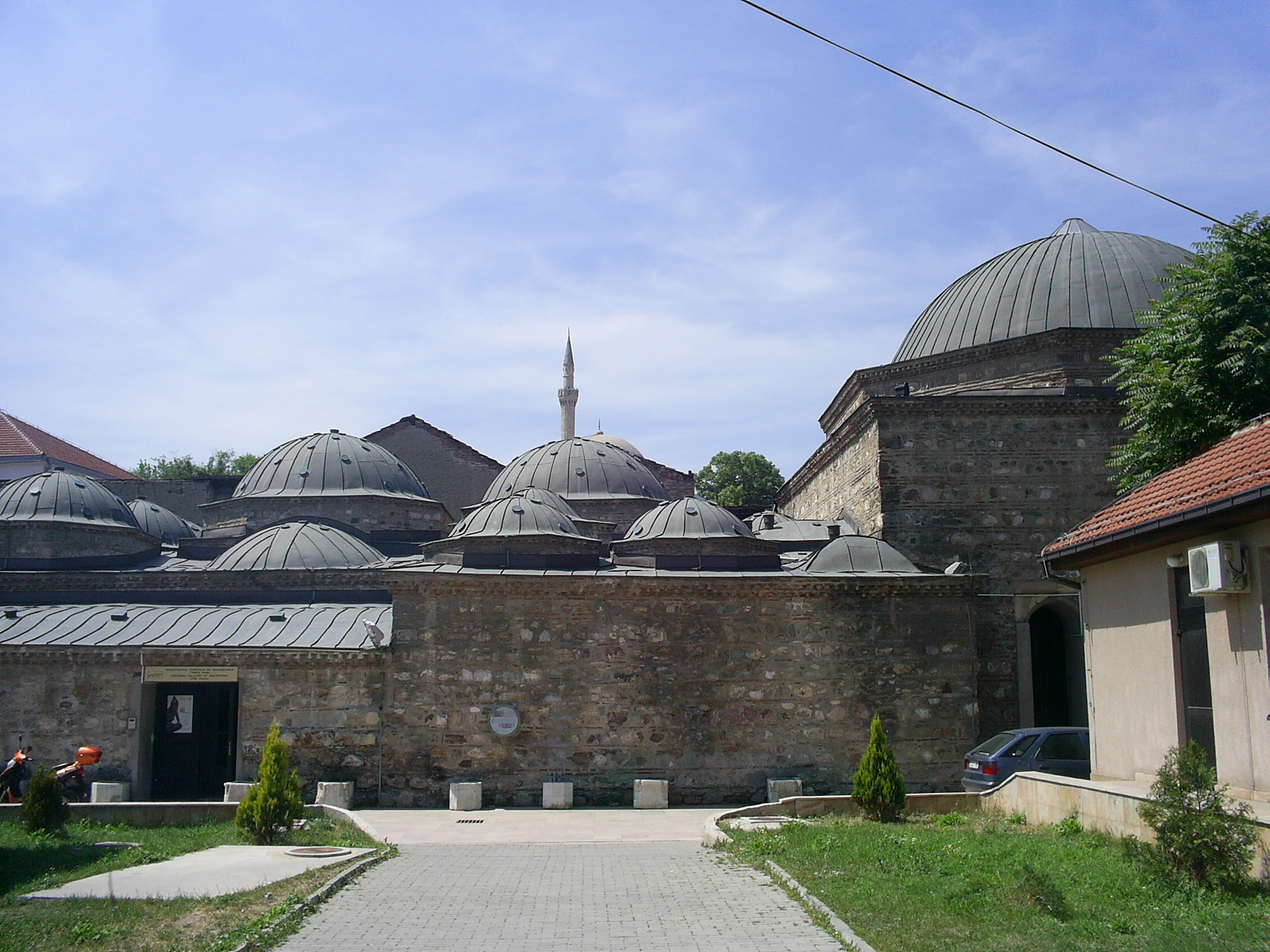 National art gallery of the Republic of Macedonia, Skopje